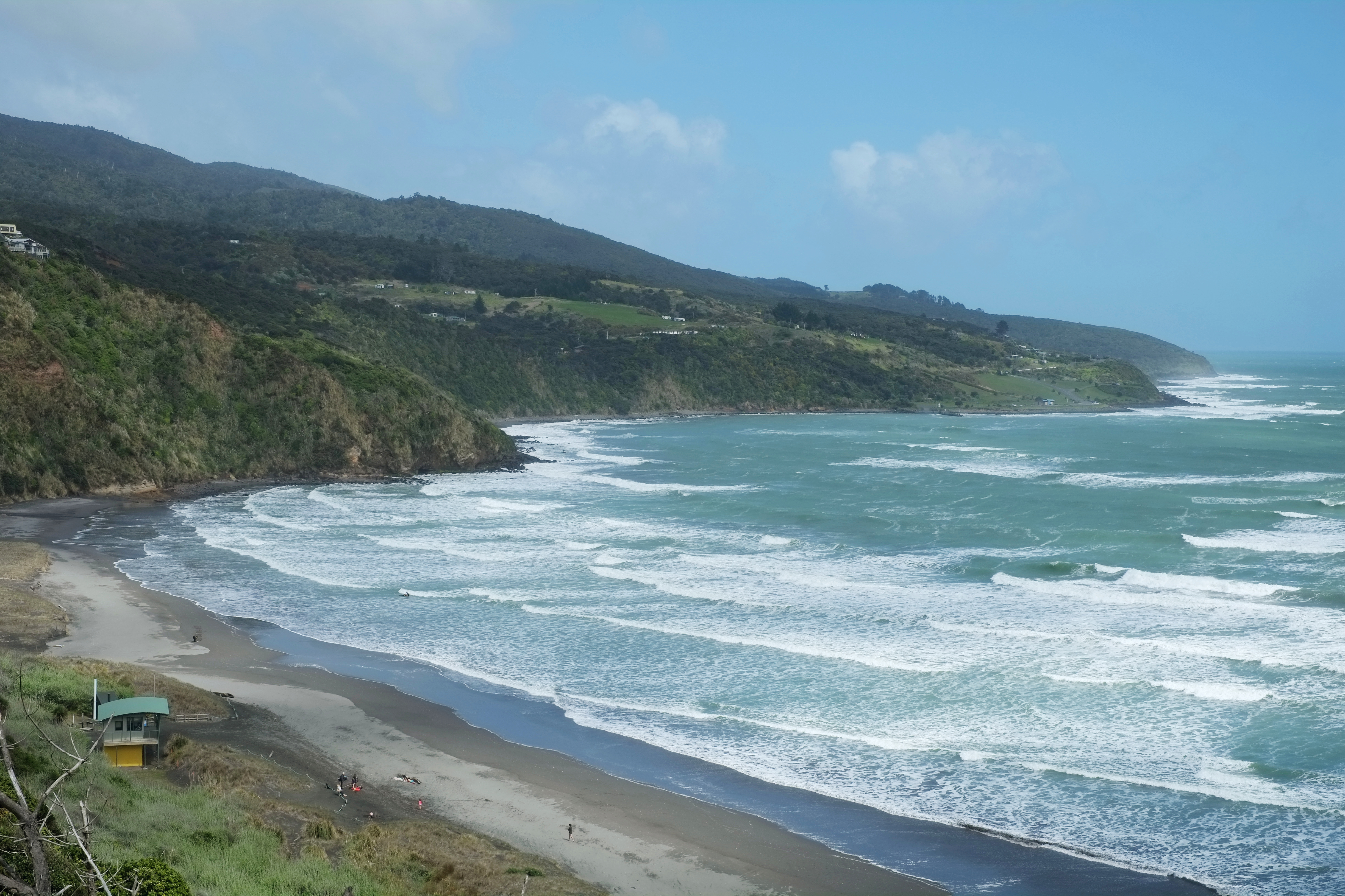 View west towards Manu Bay, Raglan